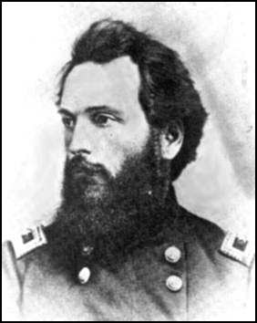 A Portrait of Charles Edward Hovey (1827-1897)